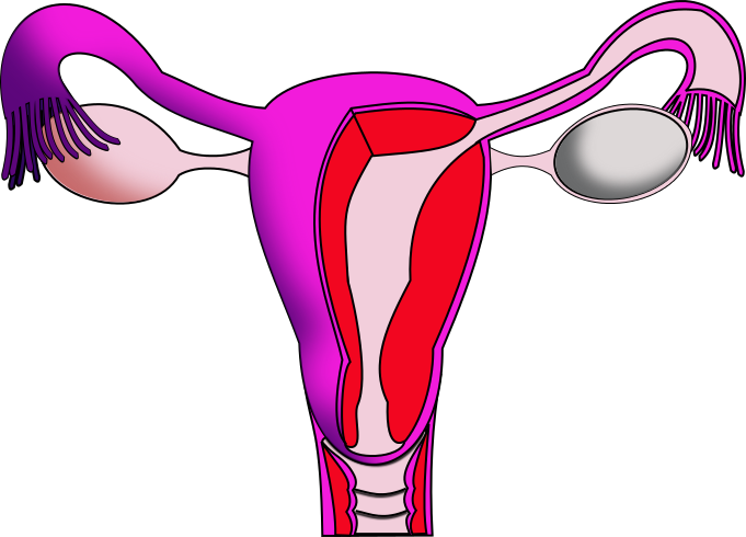 unlabeled cartoon of human uterus anatomy